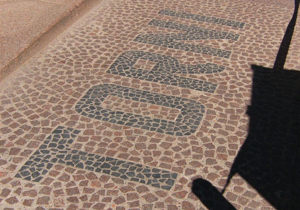 The name of the Hotel Torni on the sidewalk, Kalevankatu, Helsinki, Finland